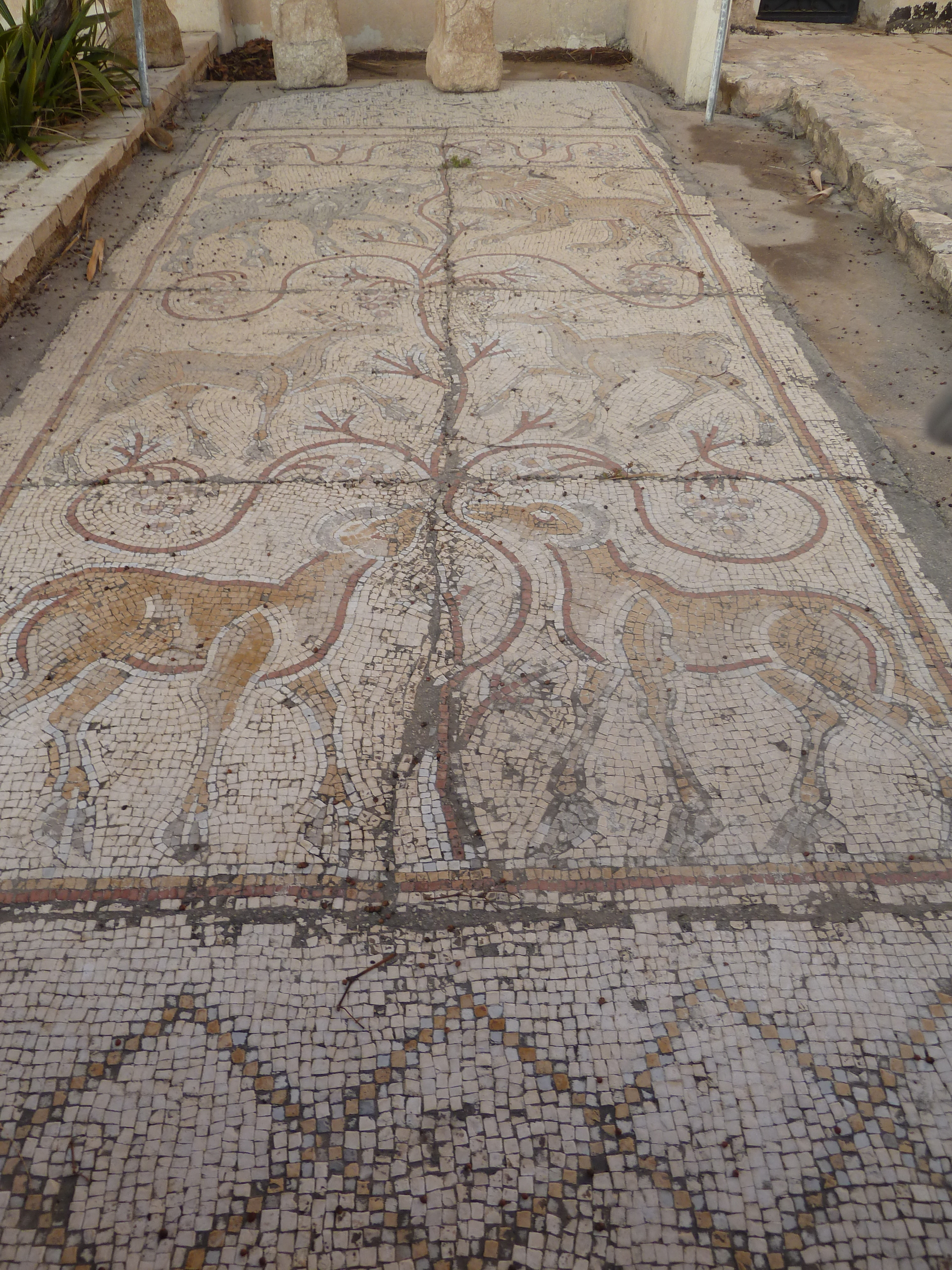 Madaba Museum, Madaba, Jordan